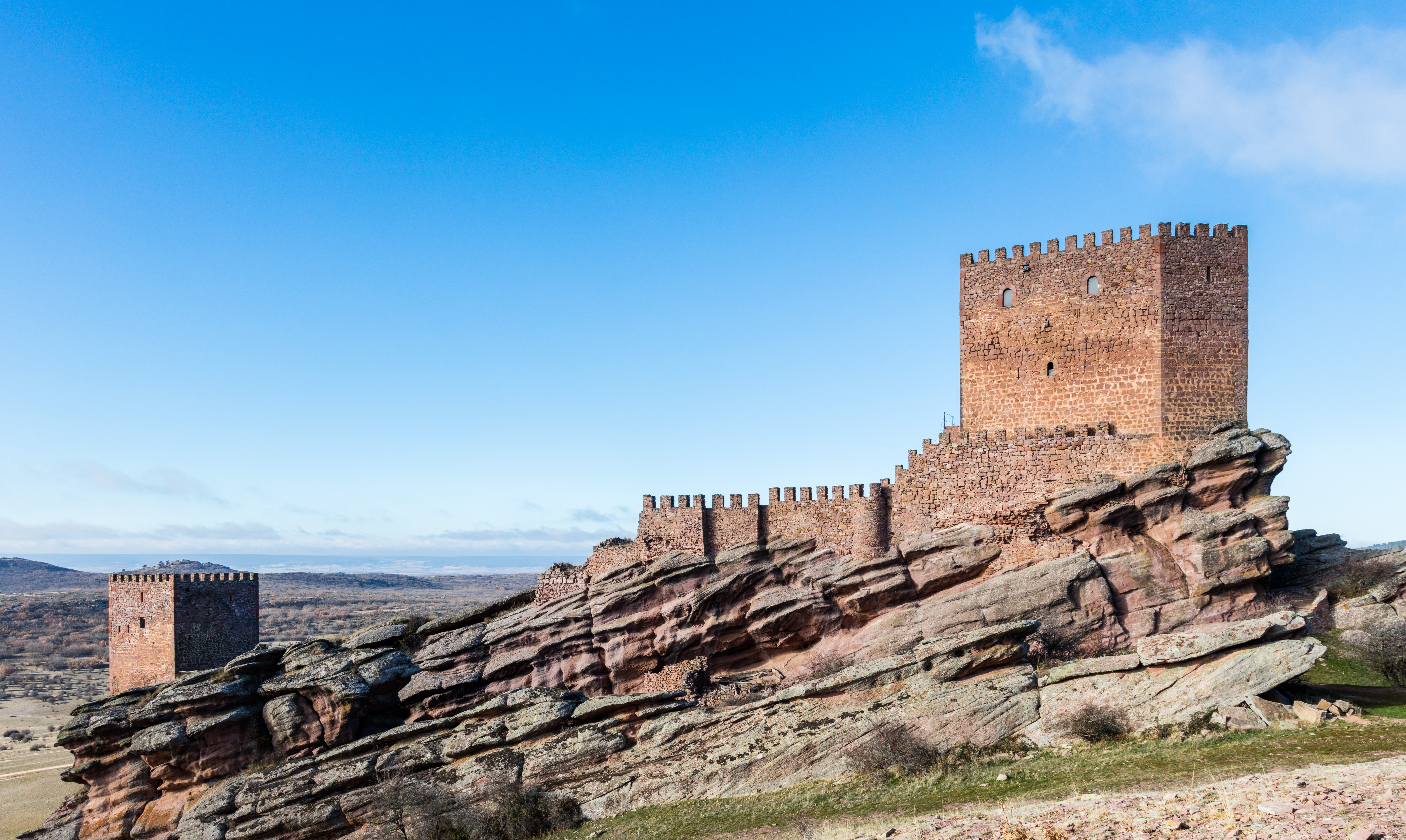 Castle of Zafra, Campillo de Dueñas, Guadalajara, Spain